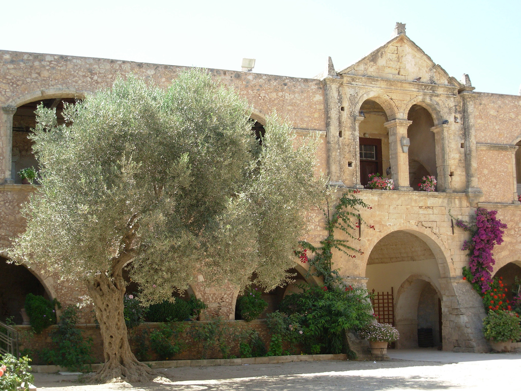 Western gate of the monastery of Arkady